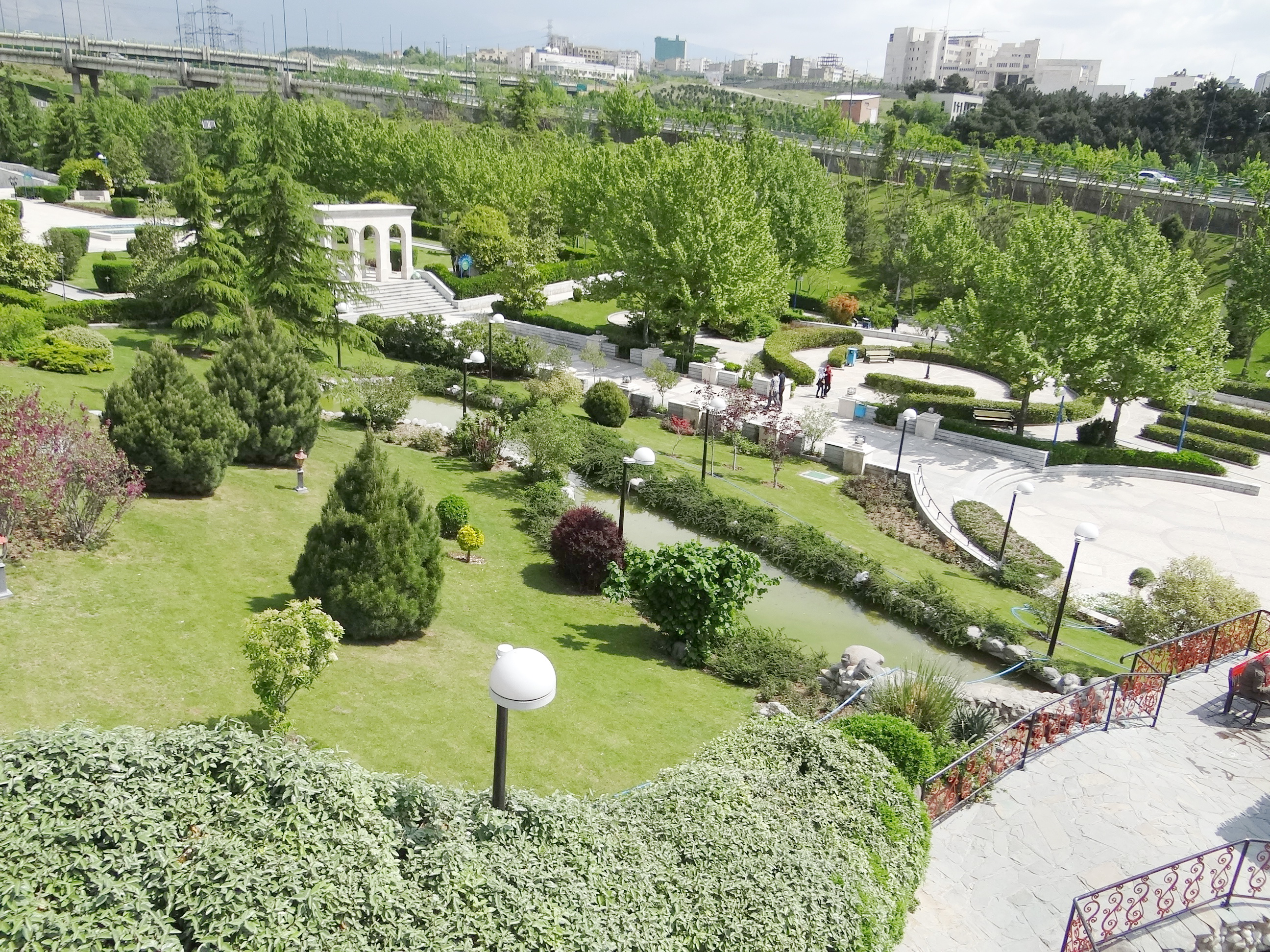 Goftegoo Park